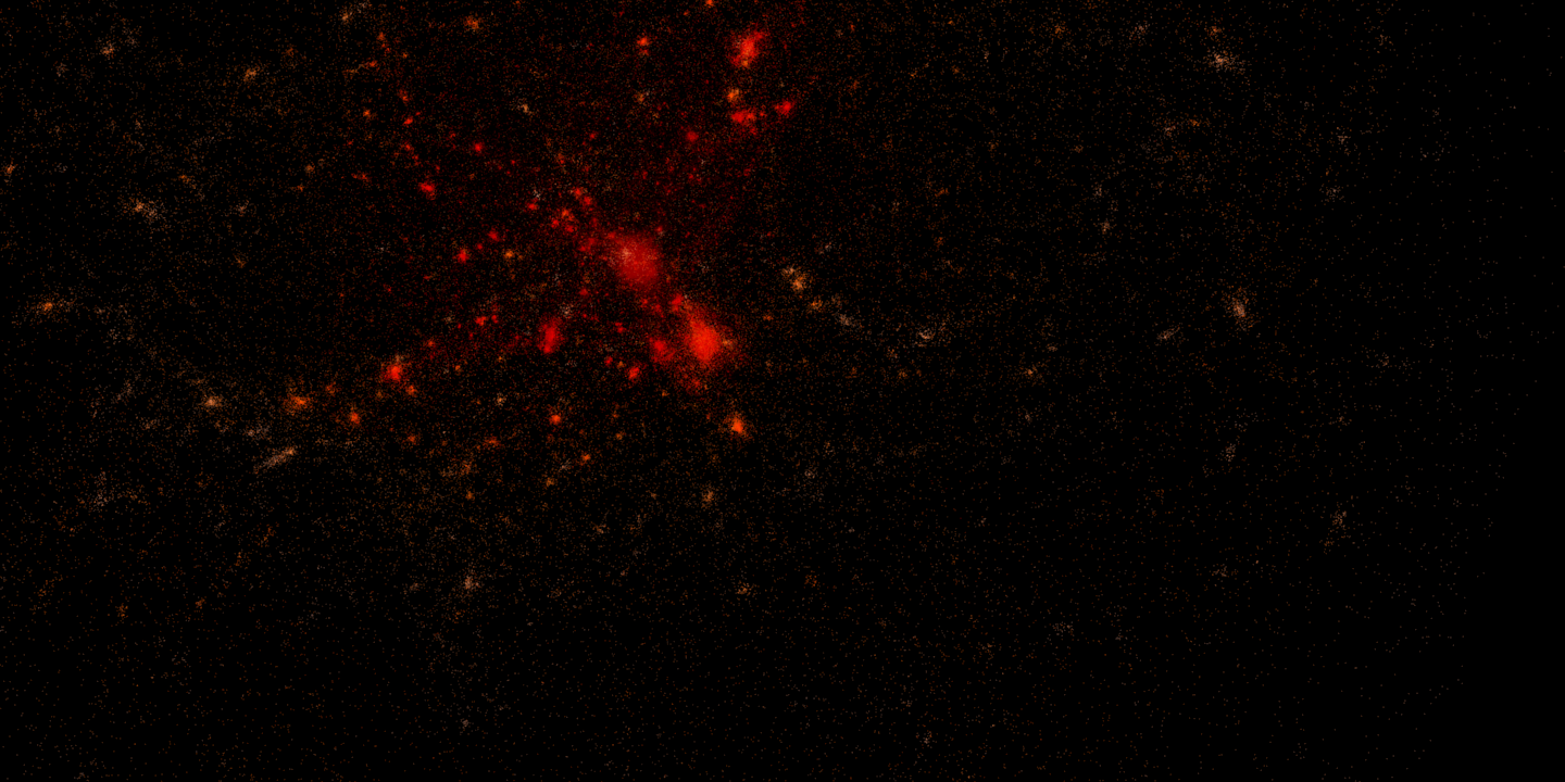 Snapshot from a simulation of the cosmological formation of a cluster of galaxies in an expanding universe. Run using GADGET and rendered with IFrIT (Ionization FRont Interactive Tool [1]) - both of which are GPL software. This simulation was conducted using computational resources at the Center for Computation and Visualization, Brown University.